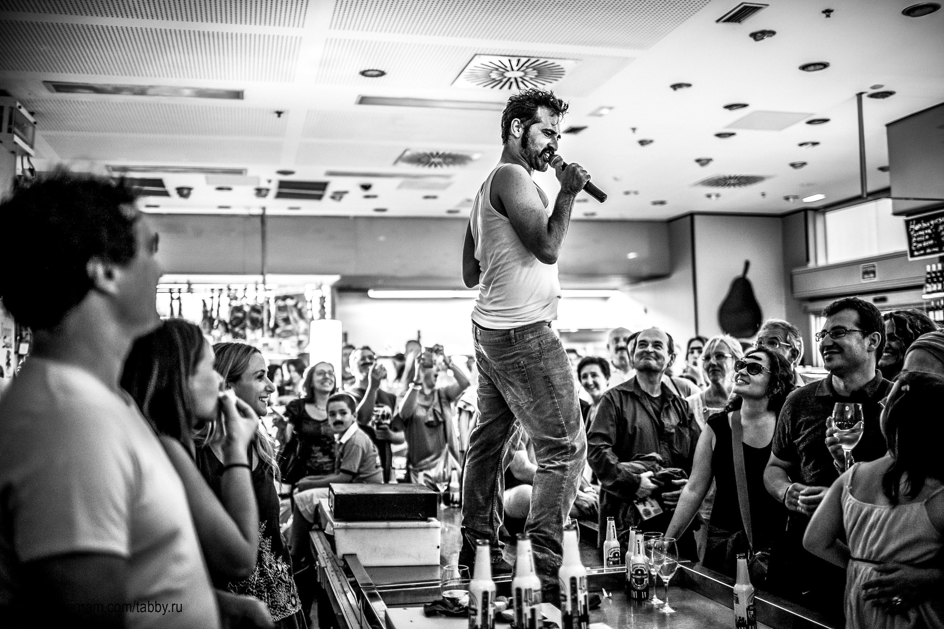 San Sebastian, Spain